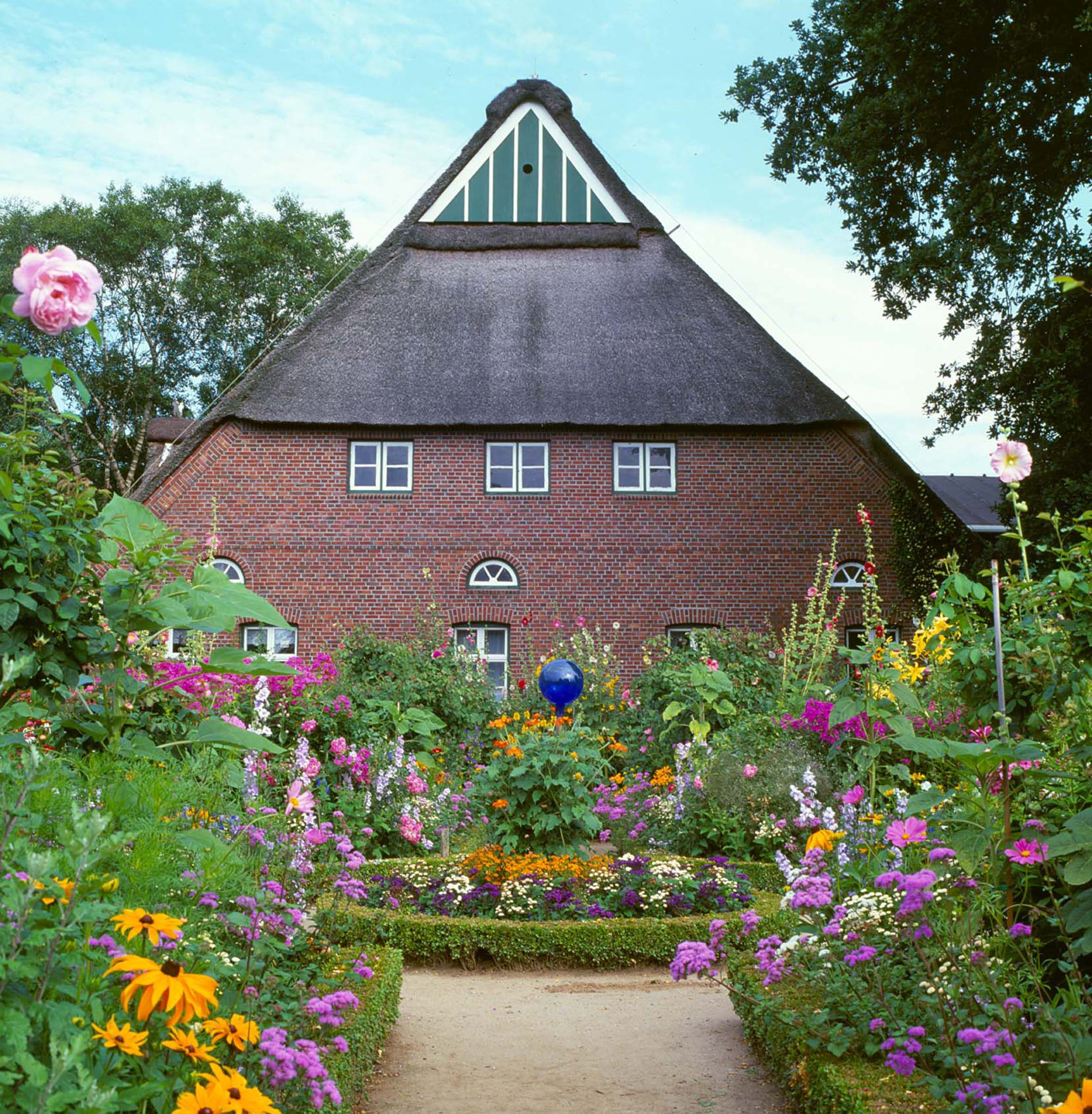 Cottagegarden in front of the historic Muenster-Hof (Homestead) in the Arboretum Ellerhoop